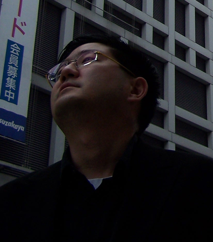 Photo courtesy Bradley Hatanaka